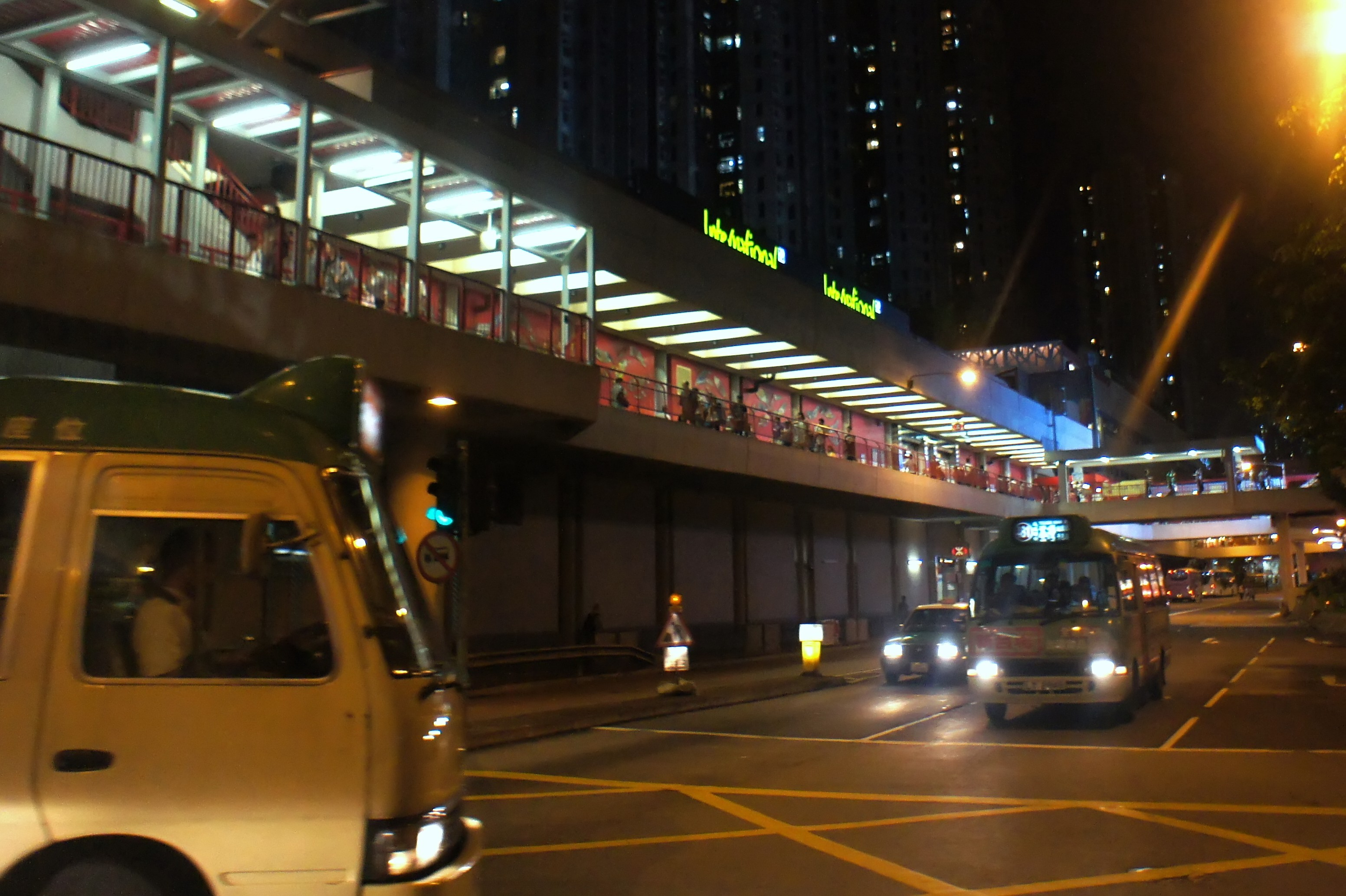 Sai Lau Kok Road at night. MTR Tsuen Wan Station is on the left.